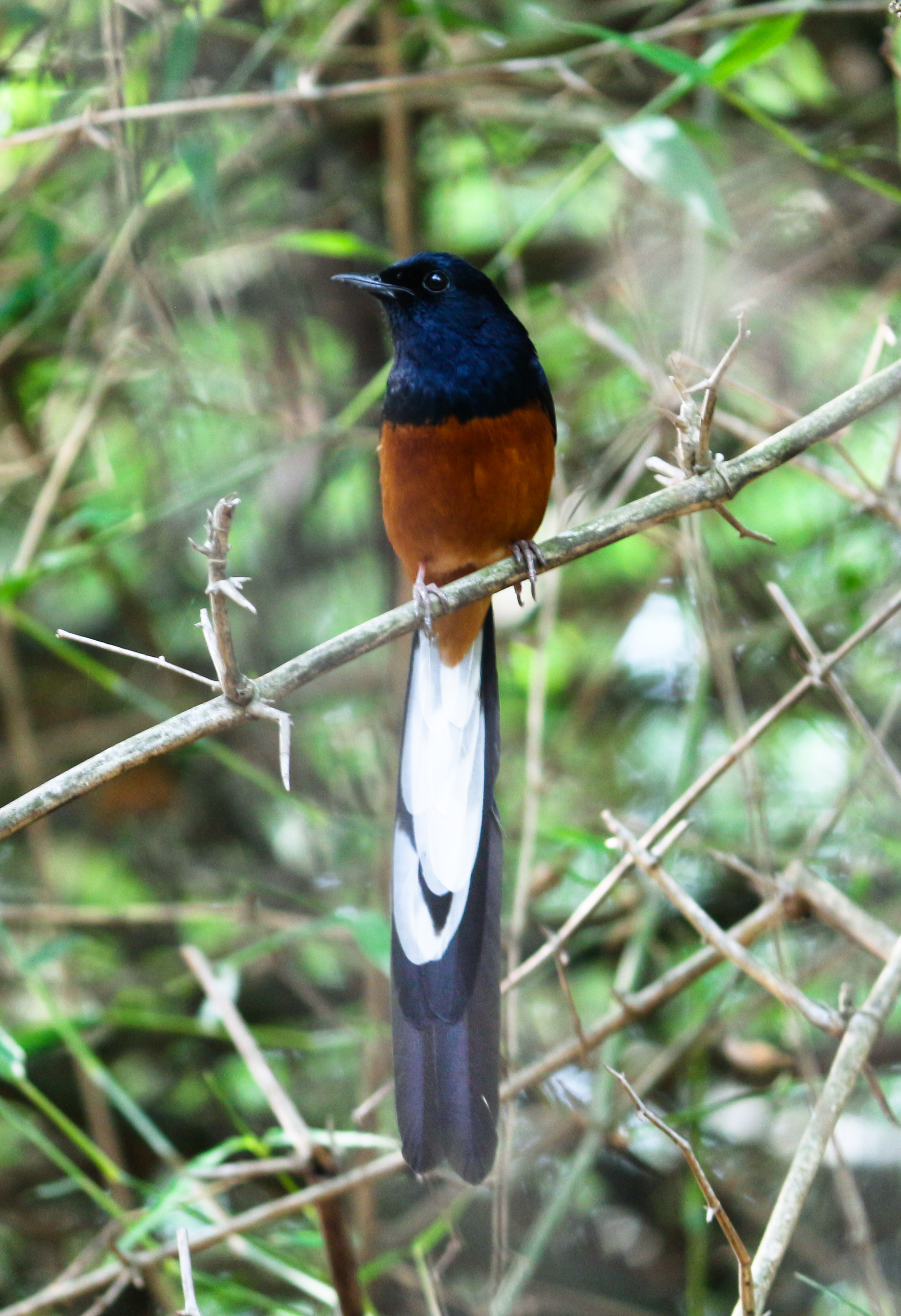 A White Rumped Shama Copsychus malabaricus(Male) In Masinagudi,India